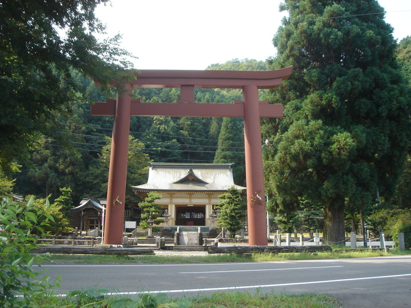 Miwa Jinja(Shrine)in Gifu City